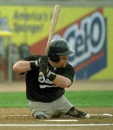 Photo from 1996 of Dave Stevens at bat.